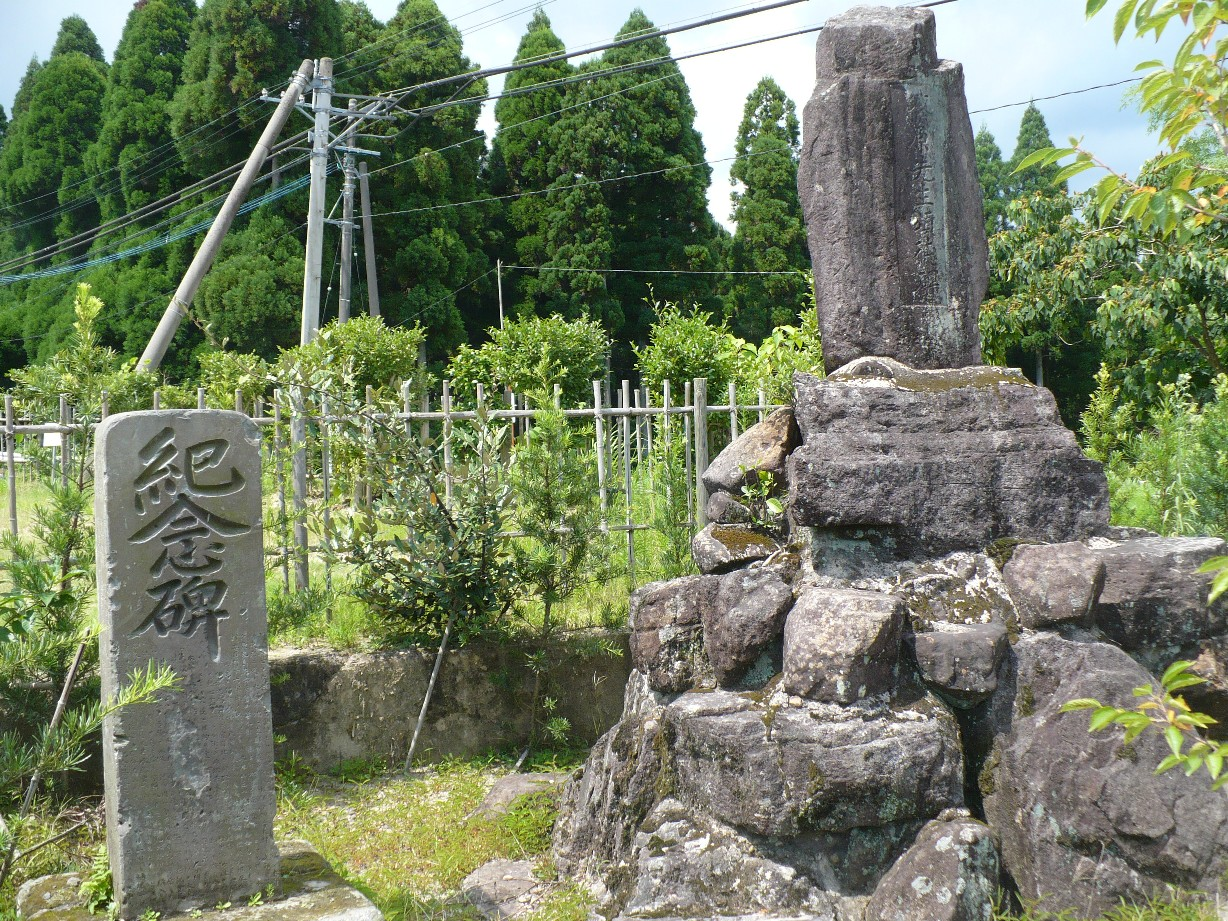 Ruin of Seibi elementary school, Aira, Kagoshima, Japan. Memorial stone is built.